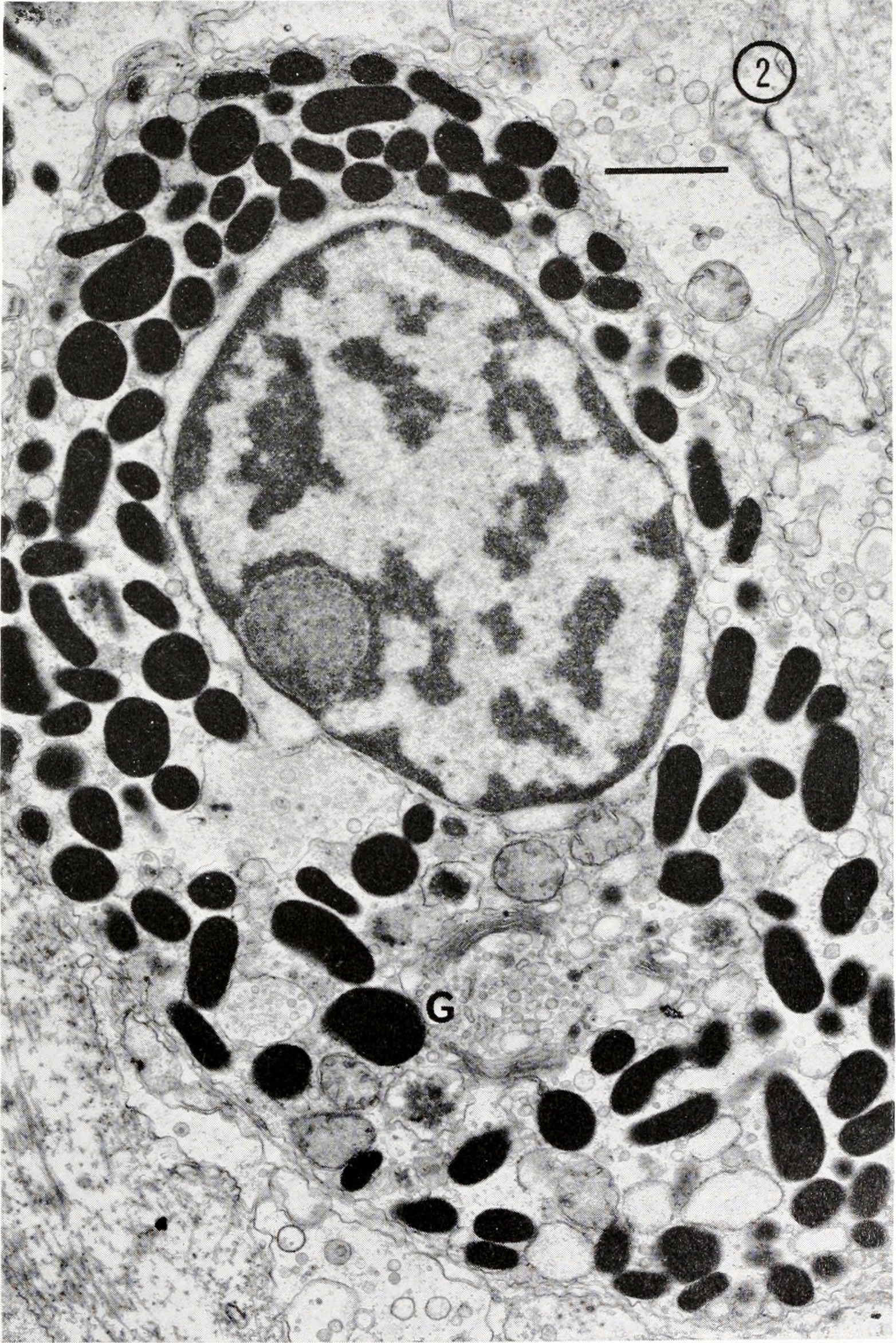 Title: The Biological bulletin Year: [1] (s) Authors: Marine Biological Laboratory (Woods Hole, Mass. ); Marine Biological Laboratory (Woods Hole, Mass. ). Annual report 1907/08-1952; Lillie, Frank Rattray, 1870-1947; Moore, Carl Richard, 1892-; Redfield, Alfred Clarence, 1890-1983 Subjects: Biology; Zoology; Biology; Marine Biology Publisher: Woods Hole, Mass. : Marine Biological Laboratory Text Appearing Before Image: INNERVATION OF MYTILUS CILIA A nerve is found below the postlateral non-ciliated cell, which is just posterior to the ciliated lateral cell. The former cell type is easily distinguishable by the presence of large cytoplasmic granules. Both cells rest on a basal lamina. The ciliated lateral cell receives nerve fibers of the branchial nerve that pass through the ba.sal lamina (Fig. 3). Most of the nerve filters are found under a single cell, with the neighboring cells connected to it by intercellular bridges with cytoplasmic Text Appearing After Image: 1 FIGURE 2. Perikaryon of a nerve cell containing electron dense granules. Stacks of cis- ternae of Golgi complex (G) are present in lower portion of cell. Membrane-bounded sesicles are found within the Golgi region; scale = 1.0 n